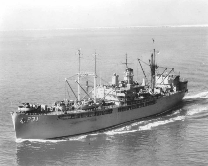 The U.S. Navy destroyer tender USS Tidewater (AD-31) underway at sea, in 1967.